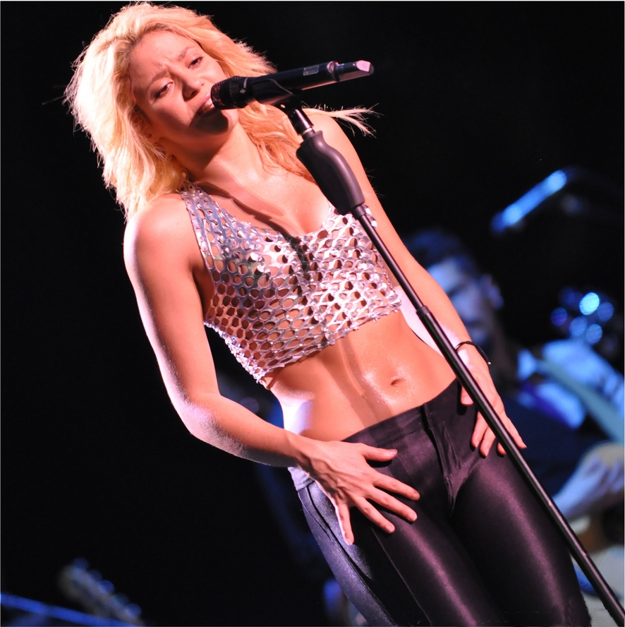 Shakira live at the 2011 Singapore Grand Prix.